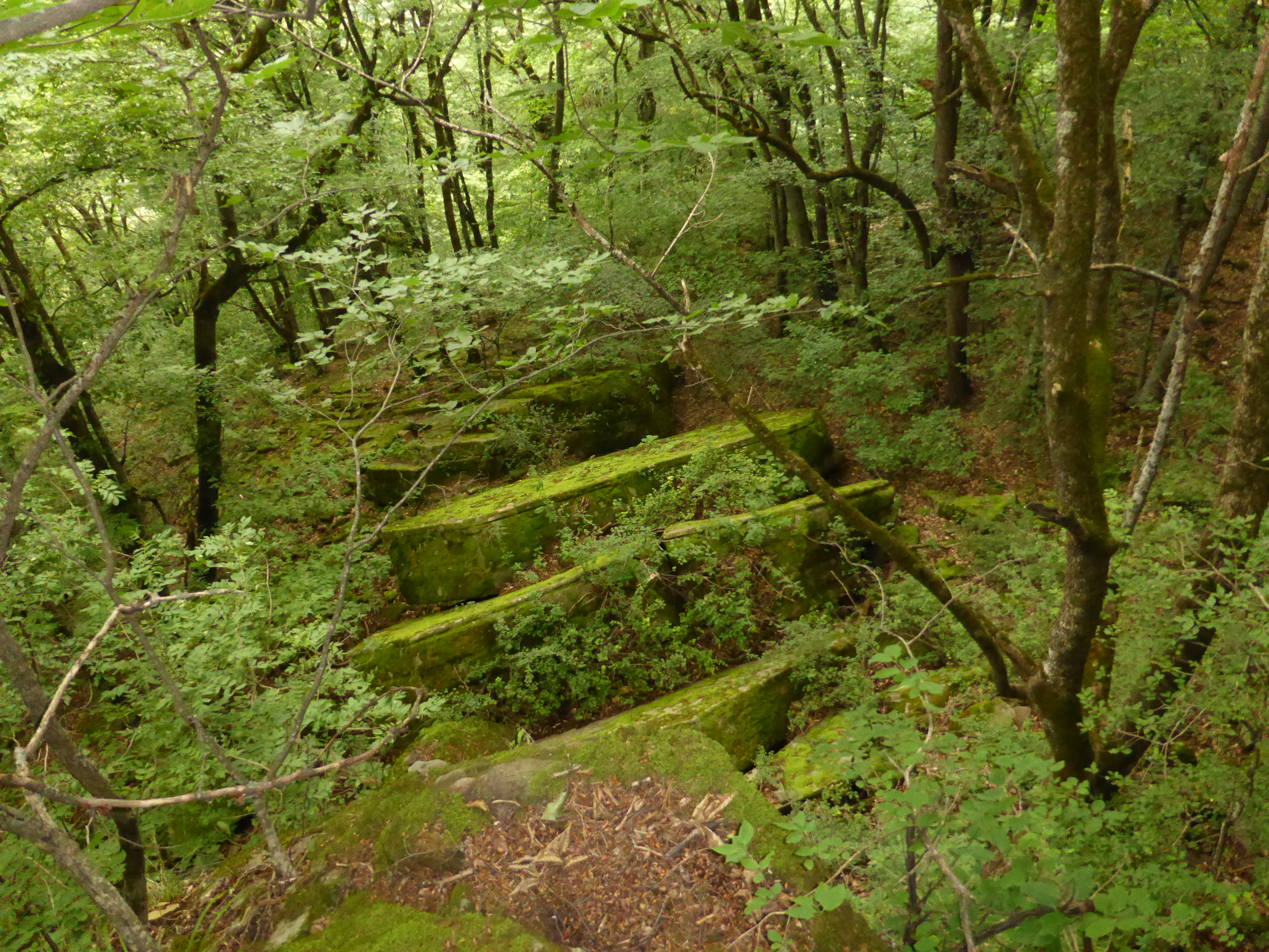 Mound Spire